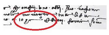 Usage of an early form of the percentage sign in a 1425 arithmetic text (author unknown) reprinted in Rara Arithmetica by D.E. Smith, with the symbol circled in red.